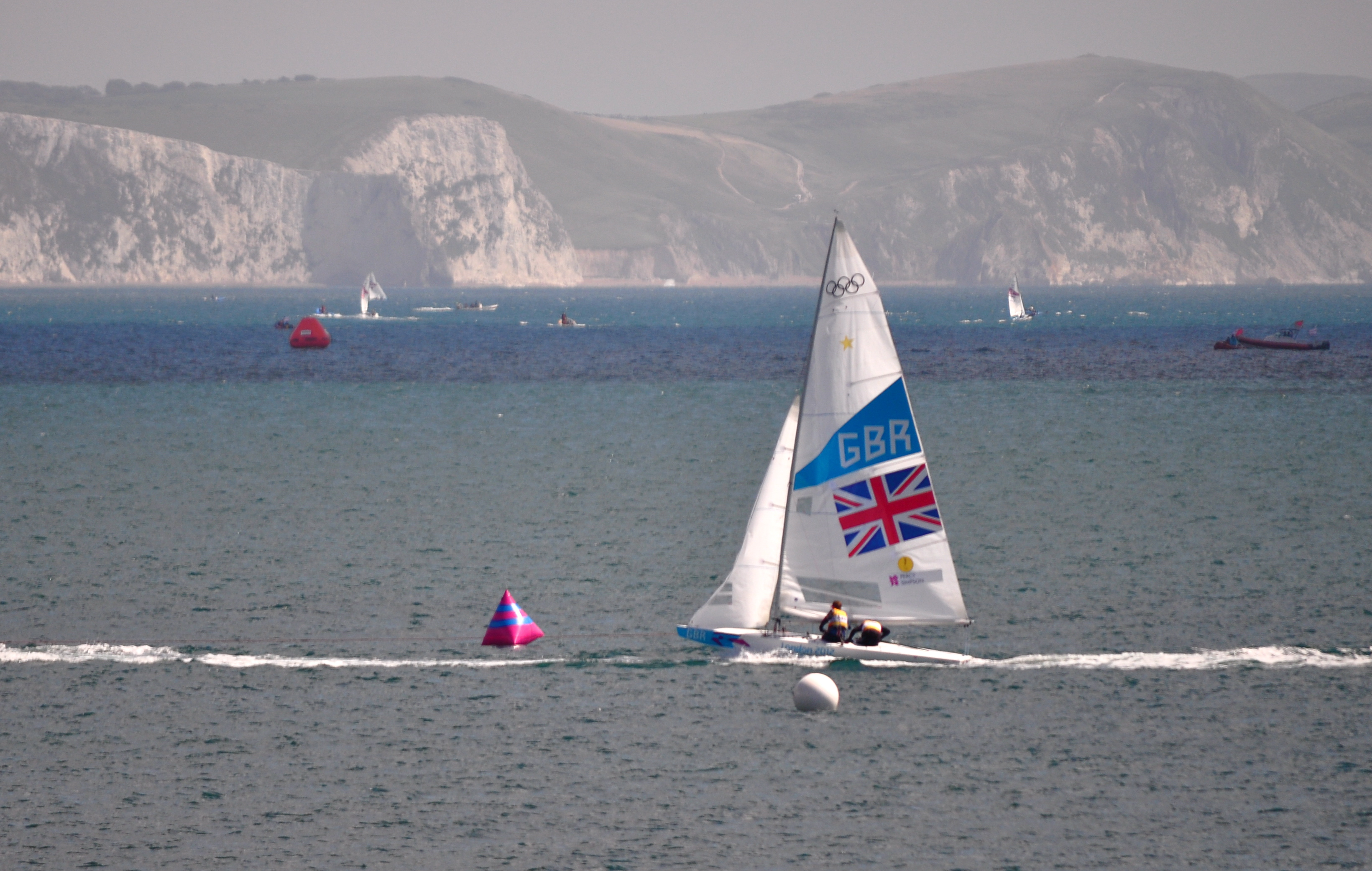 Iain Percy and the late Andrew Simpson compete in Weymouth during the 2012 Olympic Games.